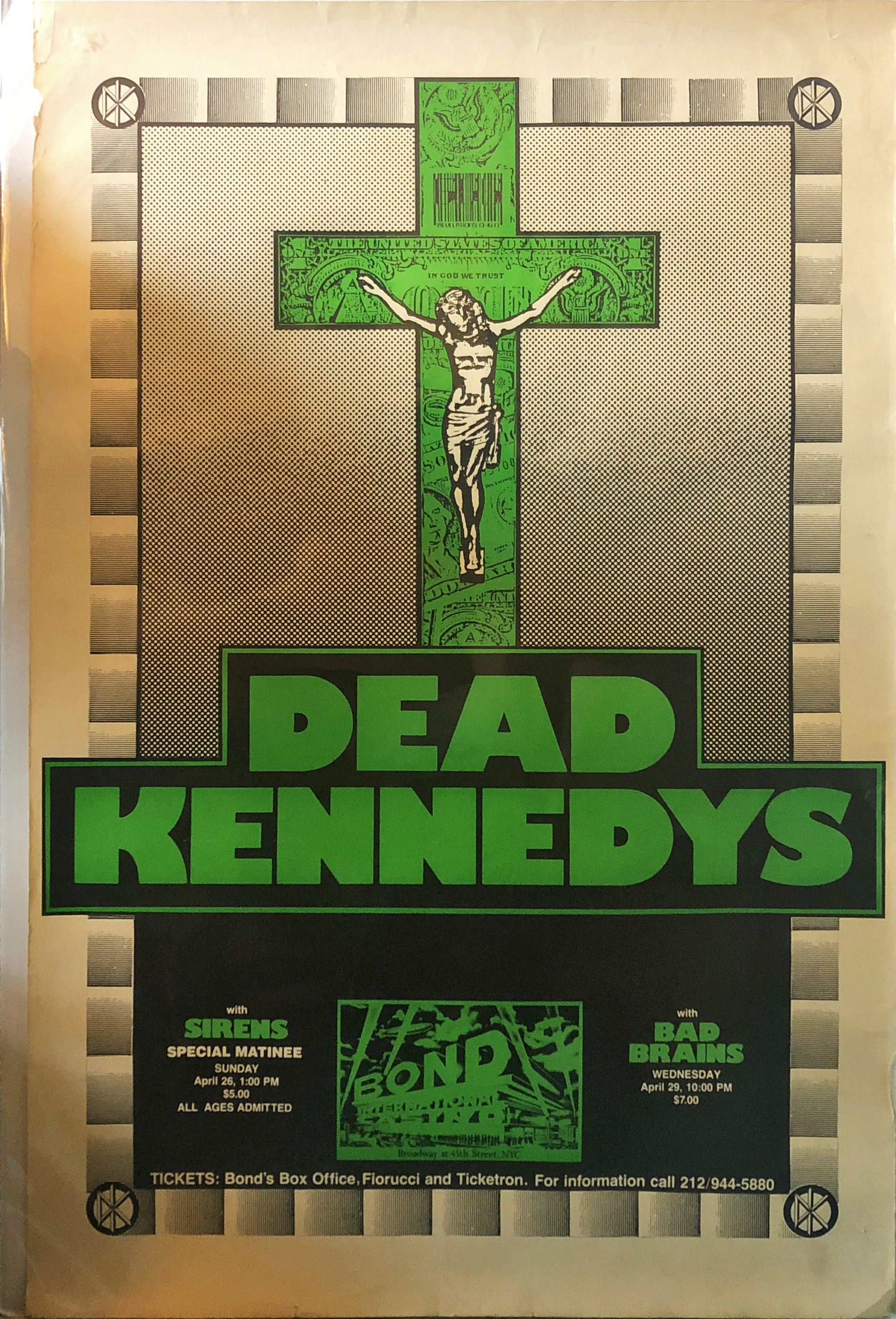 Concert promotional poster for Dead Kennedys at Bond International Casino early 1980s.